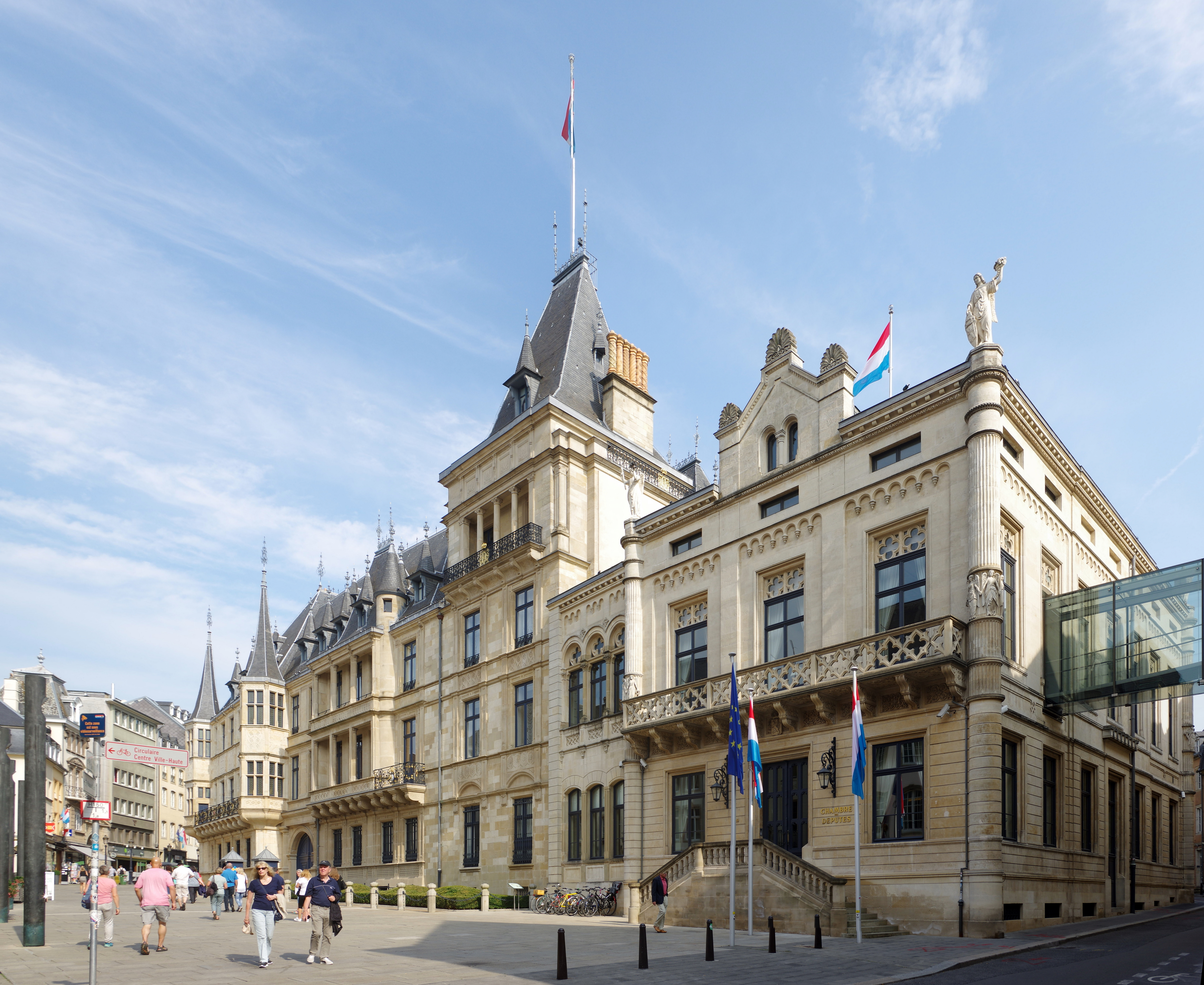 Luxembourg city, Grand Ducal Palace and Hôtel de la Chambre des députés